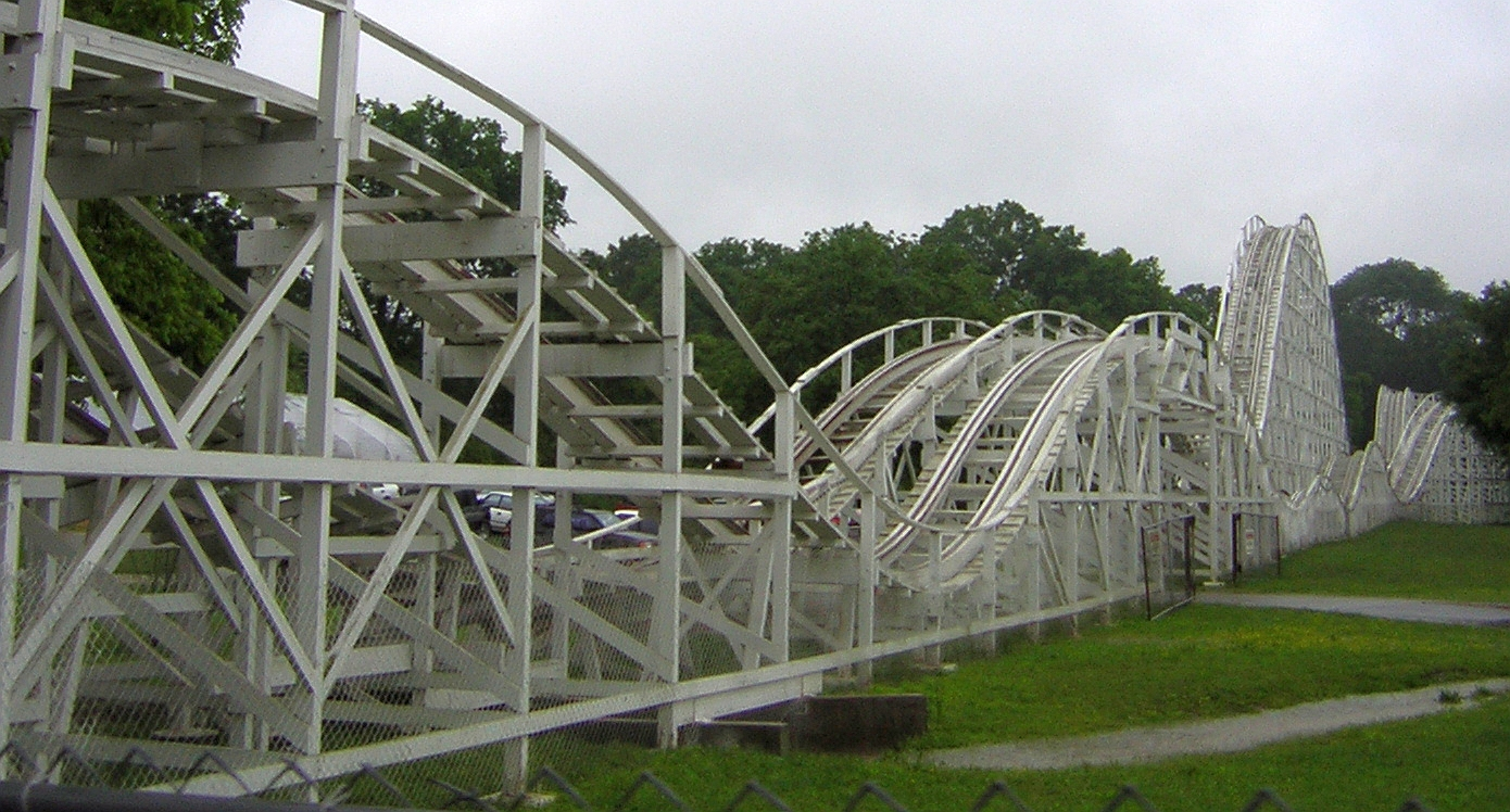 The Cannon Ball - Lake Winnepesaukah Amusement Park - Lakeview, Georgia